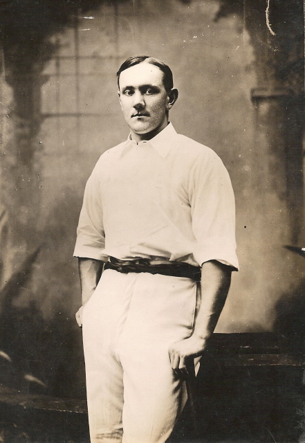 A posed studio portrait, in cricket whites, of Herbert Tremenheere Hewett.